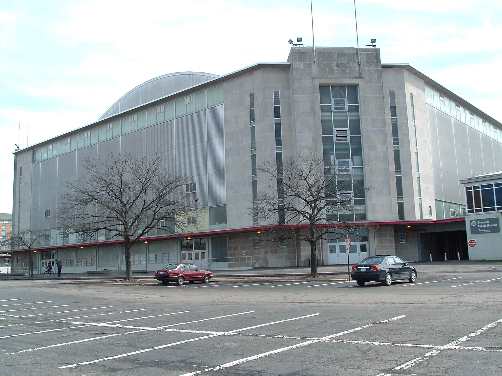 St. John Arena on the campus of The Ohio State University. Self made photo.